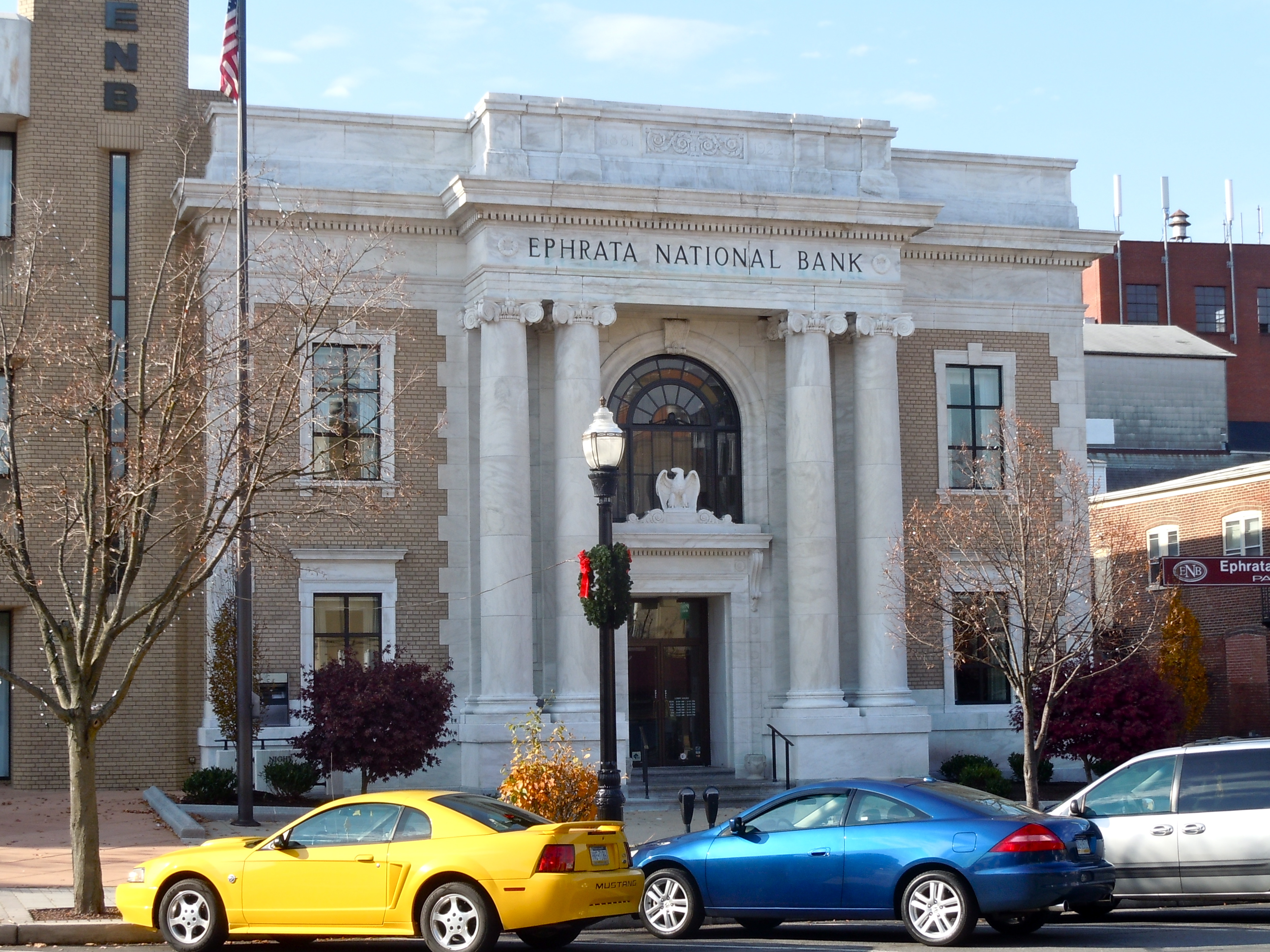 Ephrata National Bank, 31 East Main Street, Ephrata, Pennsylvania. In the Ephrata Commercial Historic District on the NRHP since November 8, 2006. The historic district includes portions of West Main, East Main, North State, South State Streets, and Washington Avenue, Ephrata, Lancaster County, PA